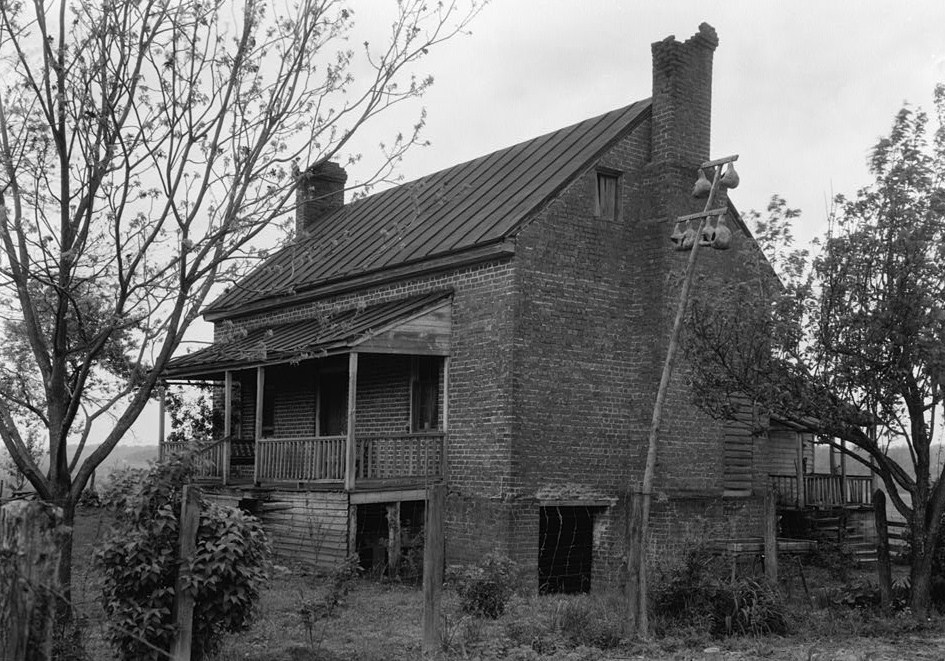 Buckingham House, Sevierville Pike, Knoxville vicinity (Sevier County, Tennessee) - (cropped). Historic American Buildings Survey—HABS image. This file comes from the Historic American Buildings Survey (HABS), Historic American Engineering Record (HAER) or Historic American Landscapes Survey (HALS). These are programs of the National Park Service established for the purpose of documenting historic places. Records consist of measured drawings, archival photographs, and written reports. When reusing please credit: Library of Congress, Prints & Photographs Division, TENN,78-____,1-2 This tag does not indicate the copyright status of the attached work. A normal copyright tag is still required. See Commons:Licensing for more information. This work is in the public domain in the United States because it is a work prepared by an officer or employee of the United States Government as part of that person’s official duties under the terms of Title 17, Chapter 1, Section 105 of the US Code. Note: This only applies to original works of the Federal Government and not to the work of any individual U.S. state, territory, commonwealth, county, municipality, or any other subdivision. This template also does not apply to postage stamp designs published by the United States Postal Service since 1978. (See § 313.6(C)(1) of Compendium of U.S. Copyright Office Practices). It also does not apply to certain US coins; see The US Mint Terms of Use. This file has been identified as being free of known restrictions under copyright law, including all related and neighboring rights.